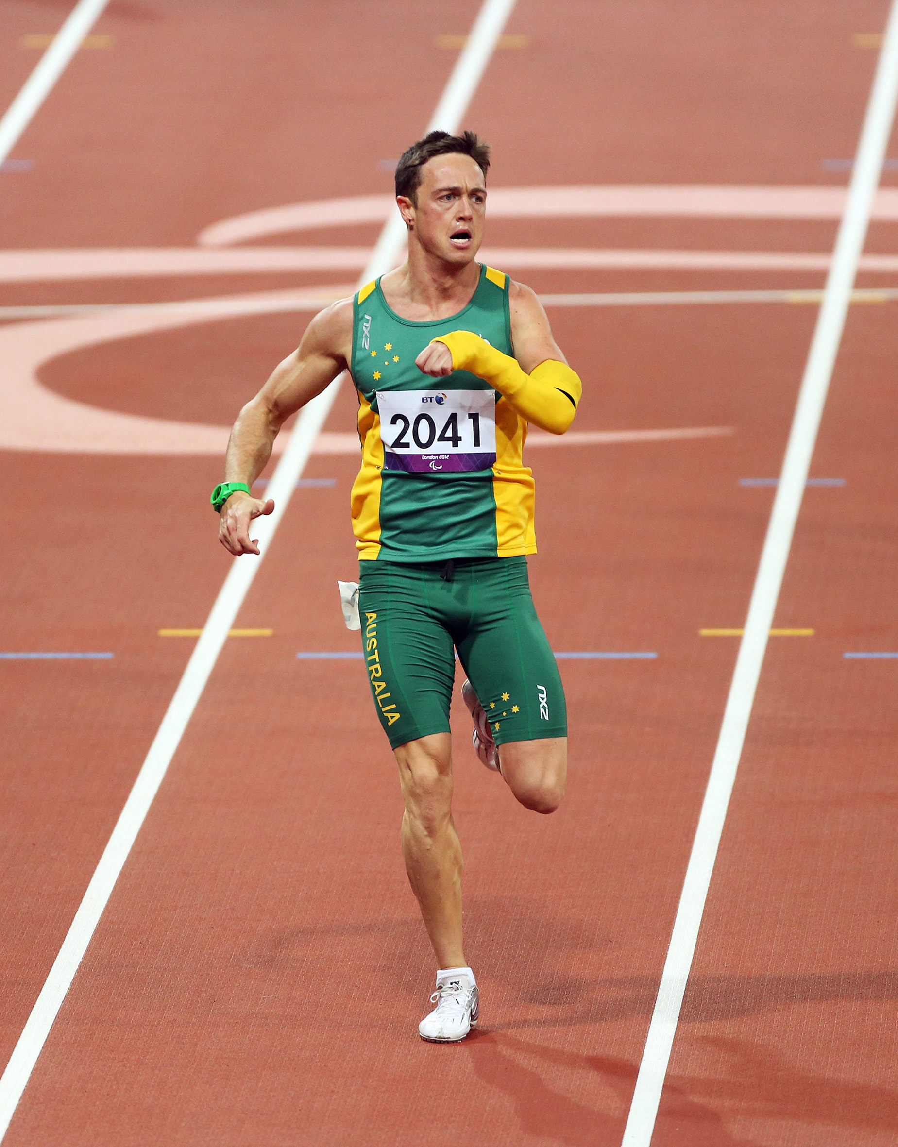 Photograph of Australian Paralympic team member Simon Patmore at the 2012 Summer Paralympic Games in London